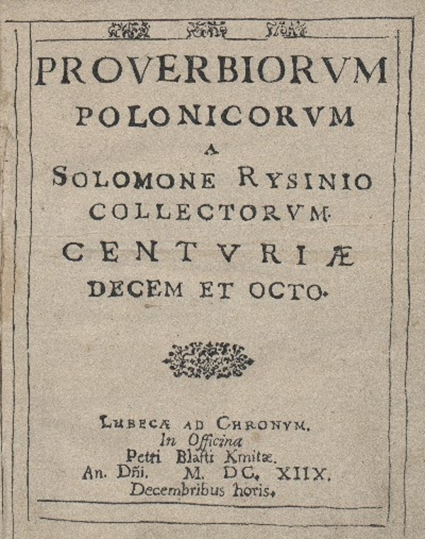 Salomon Rysiński, "Proverbiorum Polonicorum a Solomone Rysinio collectorum centuriae decem et octo", Lubecae ad Chronum : in Officina Petri Blasti Kmitae, 1618.